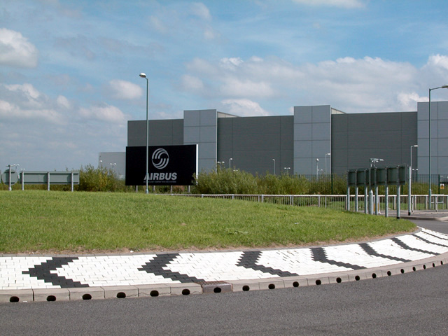 Airbus Wing Factory. Factory where Airbus wings are built.